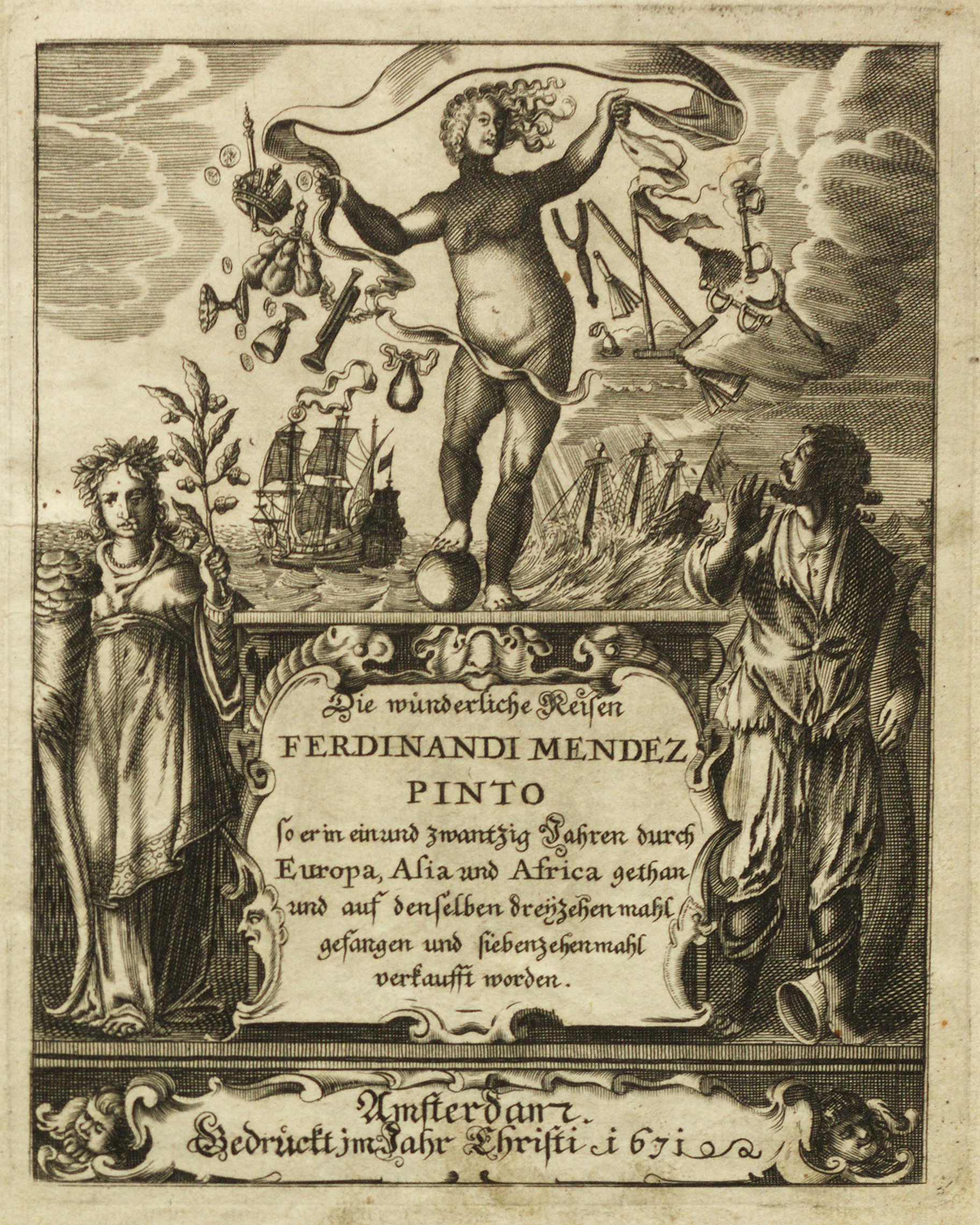 Frontispiece of the 1671 German translation of Fernão Mendes Pinto's Peregrinaçam (1614).